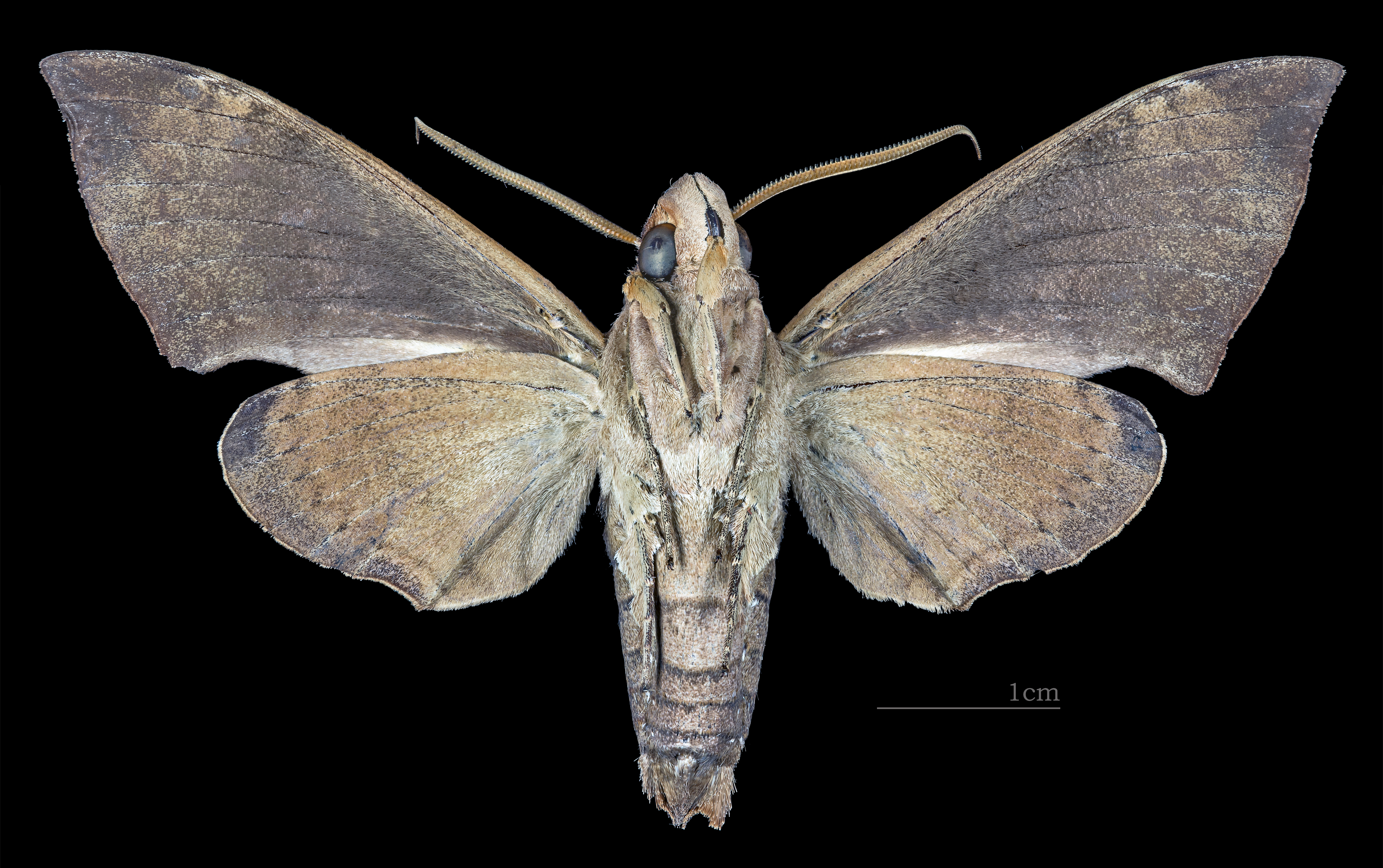 Pachygonidia caliginosa - △ Ventral side